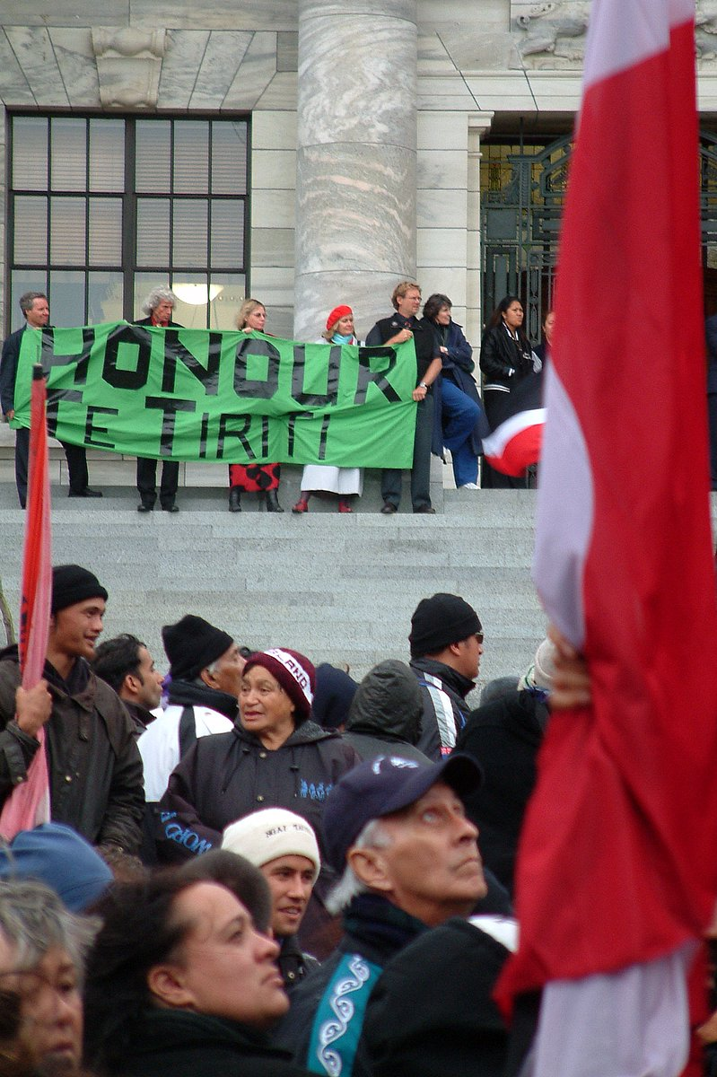 Green Party MPs at NZ parliament protest over the New Zealand foreshore and seabed controversy